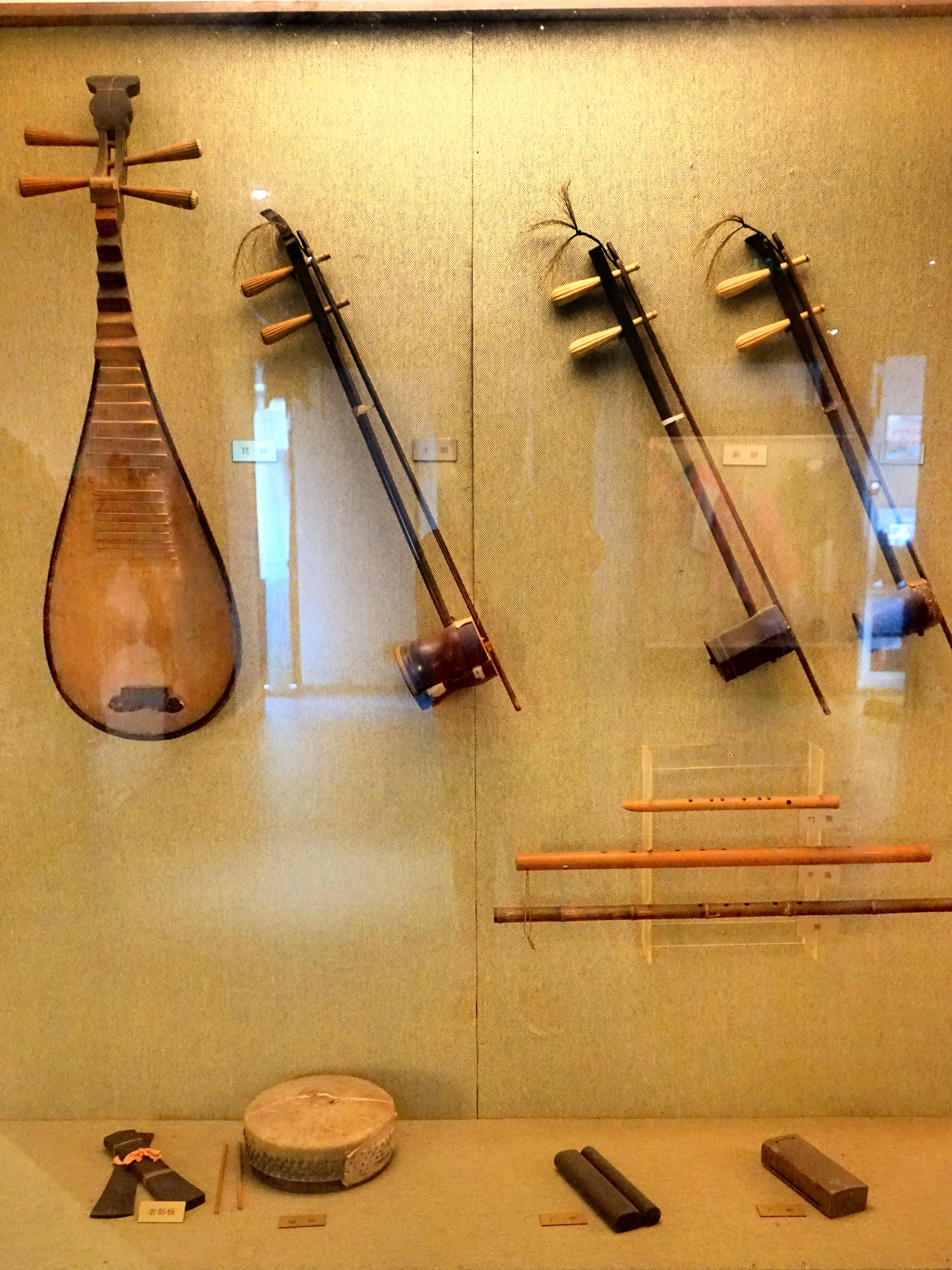 instruments played in Xi opera. Wuxi Xi Opera Museum.